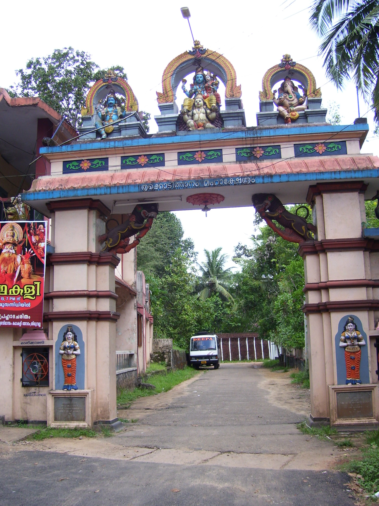 This temple is located in Kerala.